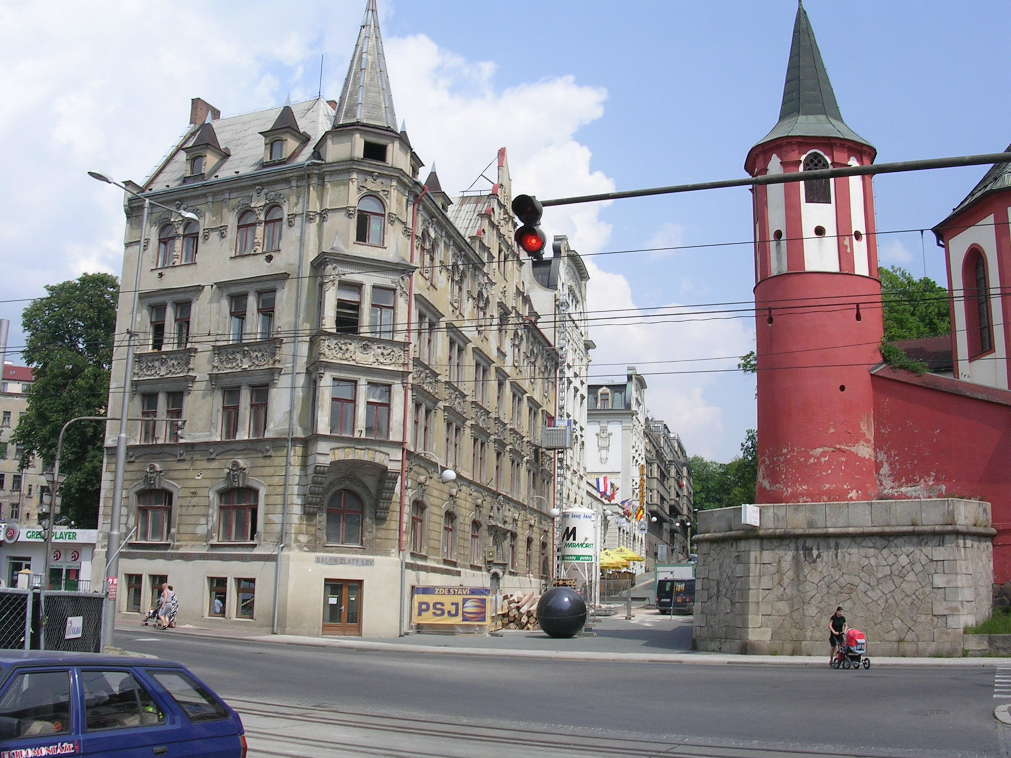 Liberec. The Czech Republic.